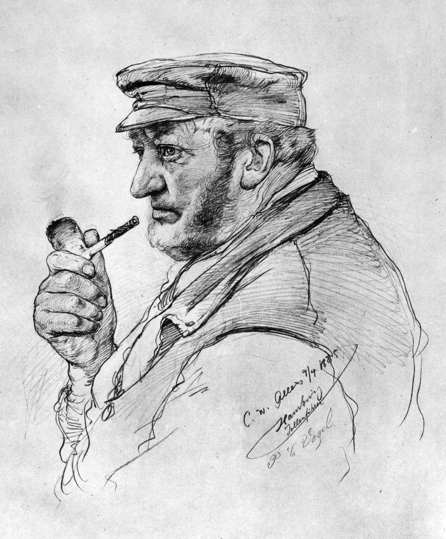 Portrait of a sailor.